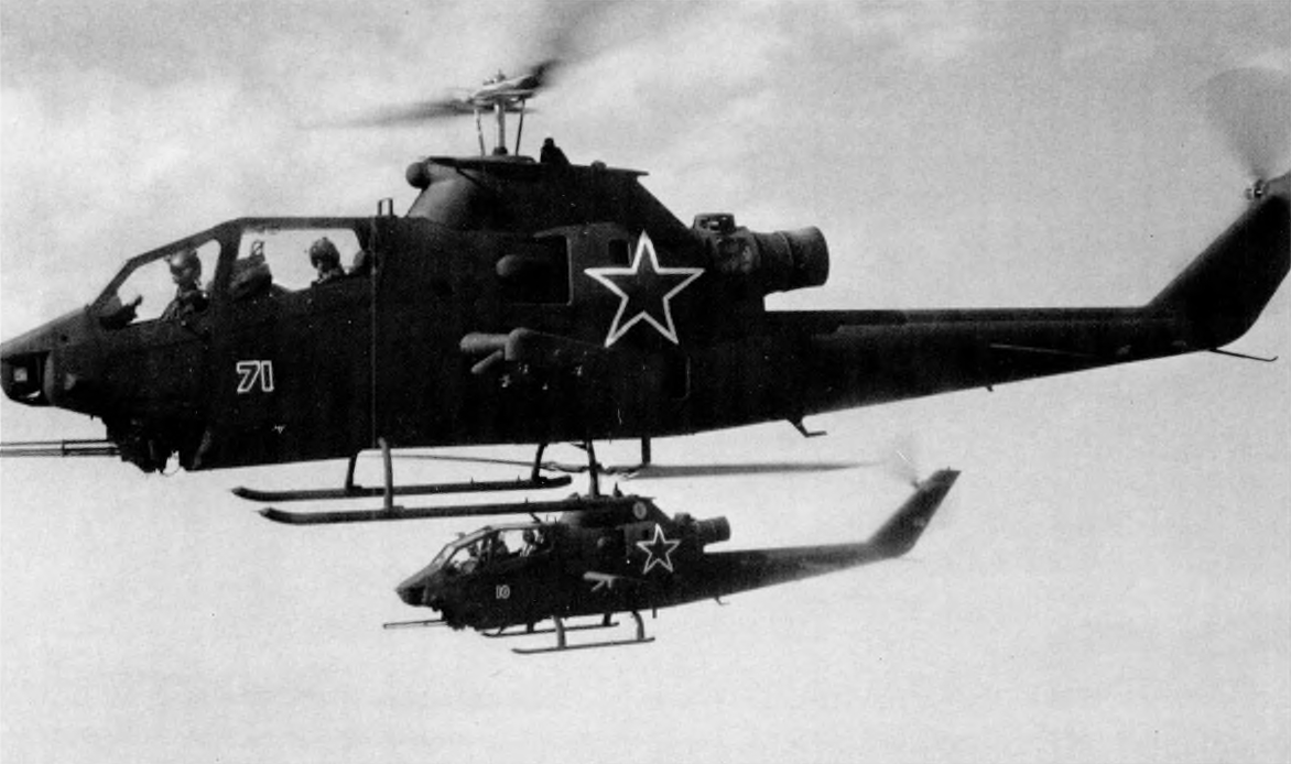 Opposing Forces helicopters fly Warsaw-Pact-style formations during adversary air support missions at Yuma, Ariz.